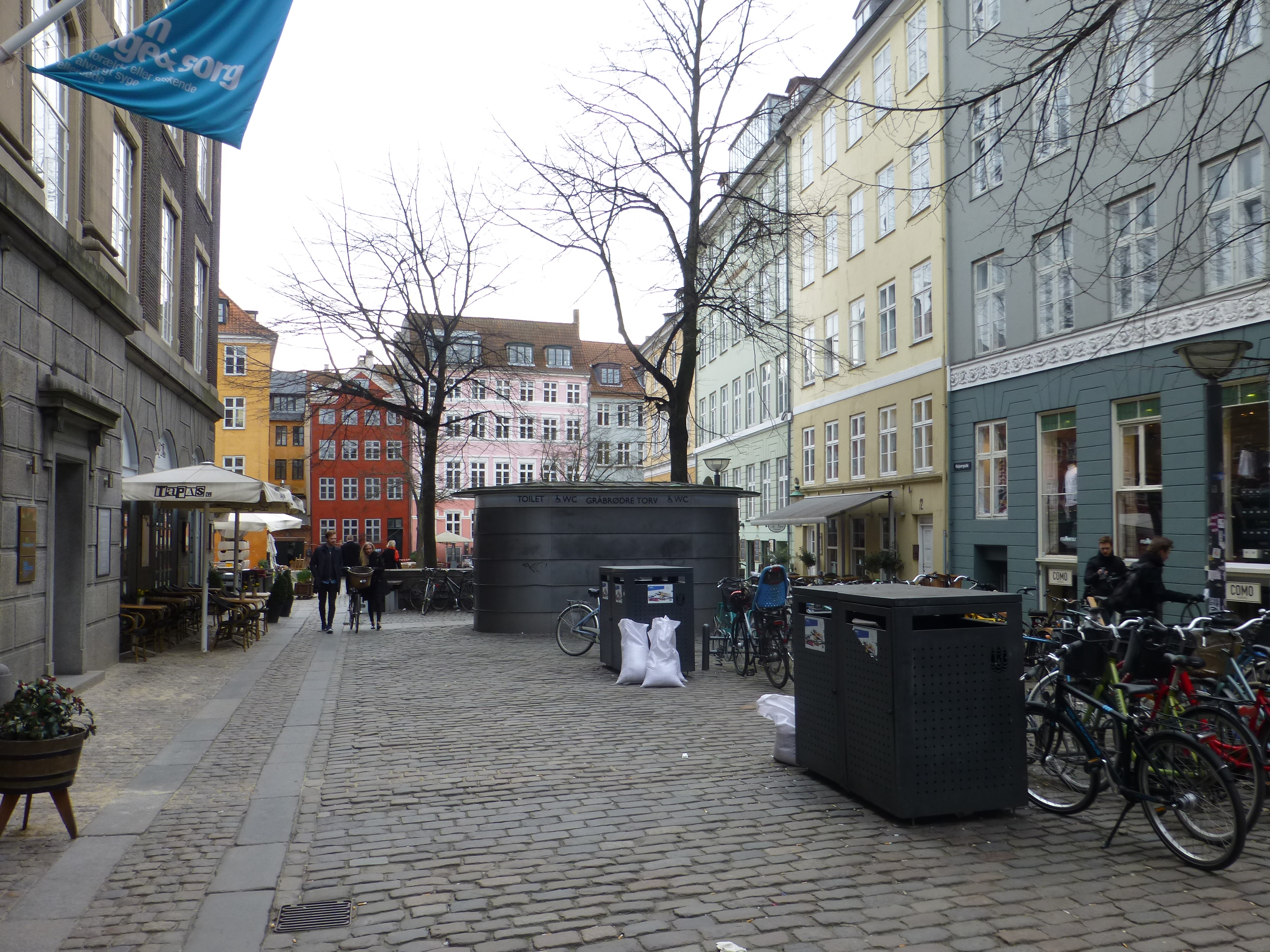 The street Kejsergade in Indre By in Copenhagen.